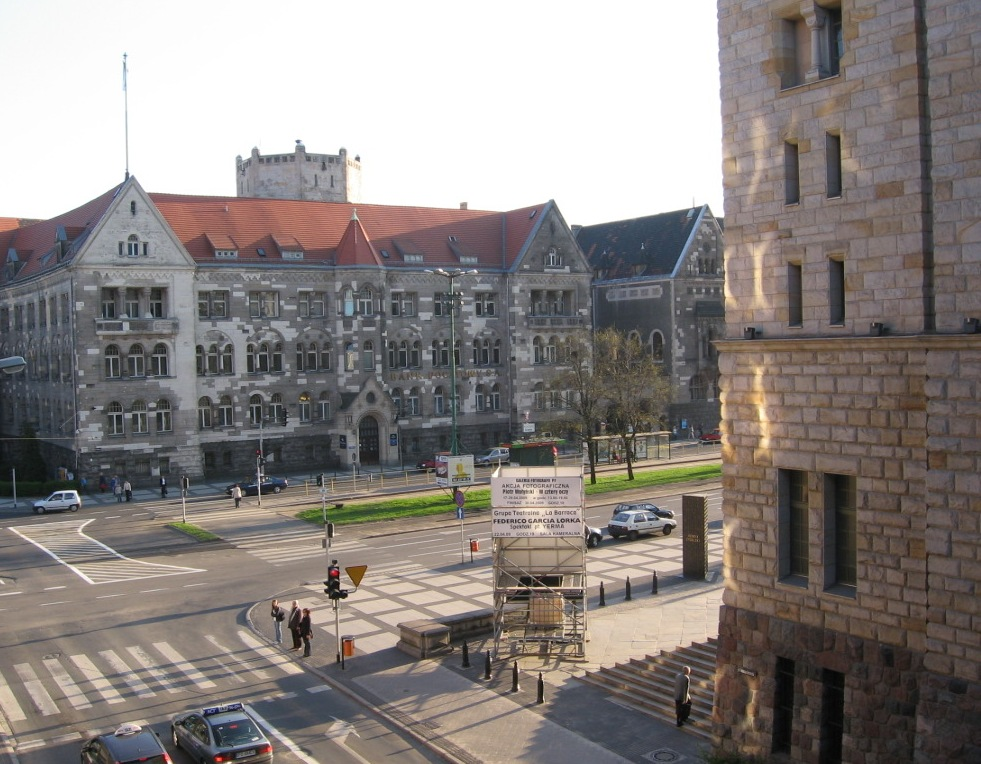 Intersection of Święty Marcin Street and Tadeusz Kościuszko Street in Poznań, Poland and the place between Imperial Castle and Main Post Office building, when was located Berlin Gate (Brama Berlińska, 1849-1901) of Fortress Poznań.